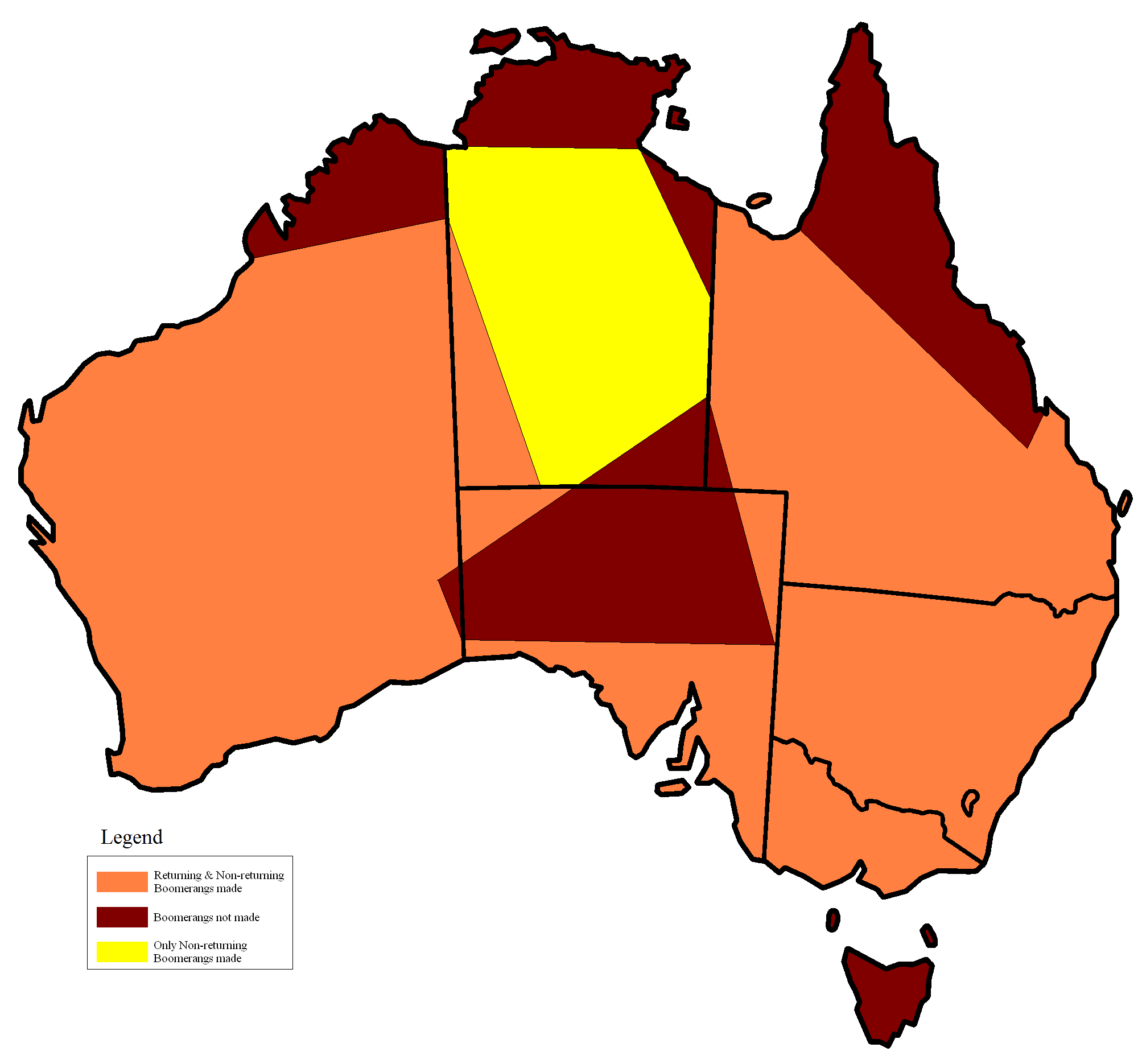 Map of Australia showing the distribution of boomerangs based on Martyman maps and released under the GFDL.